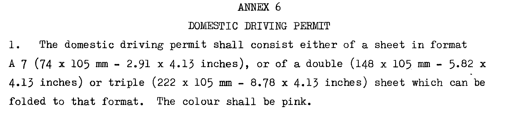 Screenshot of Annex 6 of "Convention of Road Traffic" from volume 1042 of the Geneva Conventions